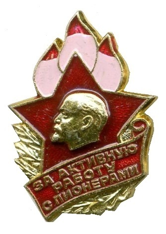 Komsomol badge for active work with pioneers